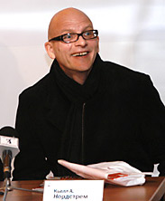 Kjell A. Nordström, Swedish economist